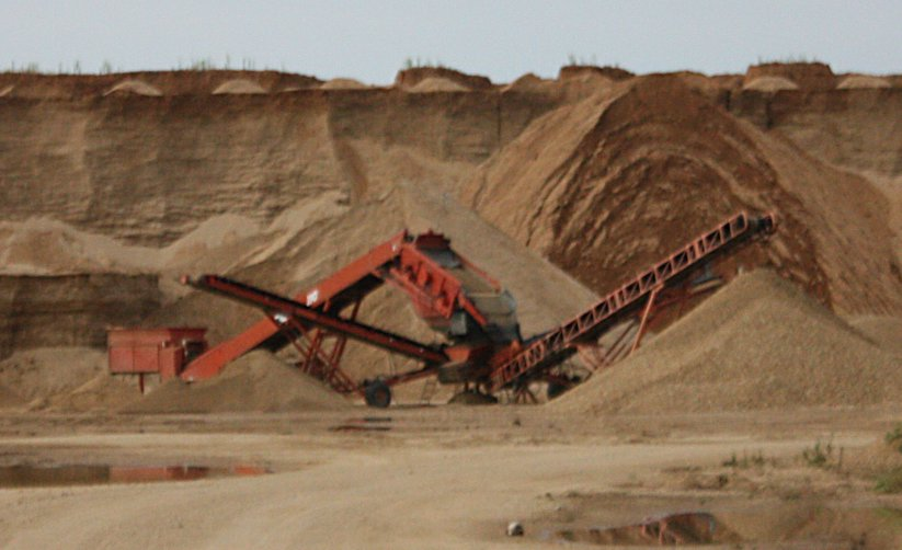 Sand mine in the Czech Republic, Bratčice